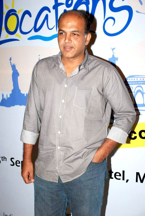 Ashutosh Gowariker at at Locations Awards' party